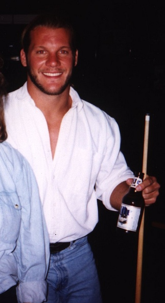 Chris Jericho after a taping of WCW Monday Nitro from Minneapolis, Minnesota in 1998.